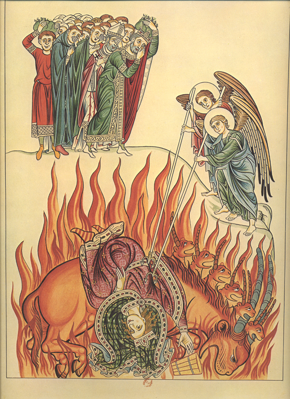 f. 258v- Whore of Babylon// Hortus deliciarum (before 1176-c. 1196)